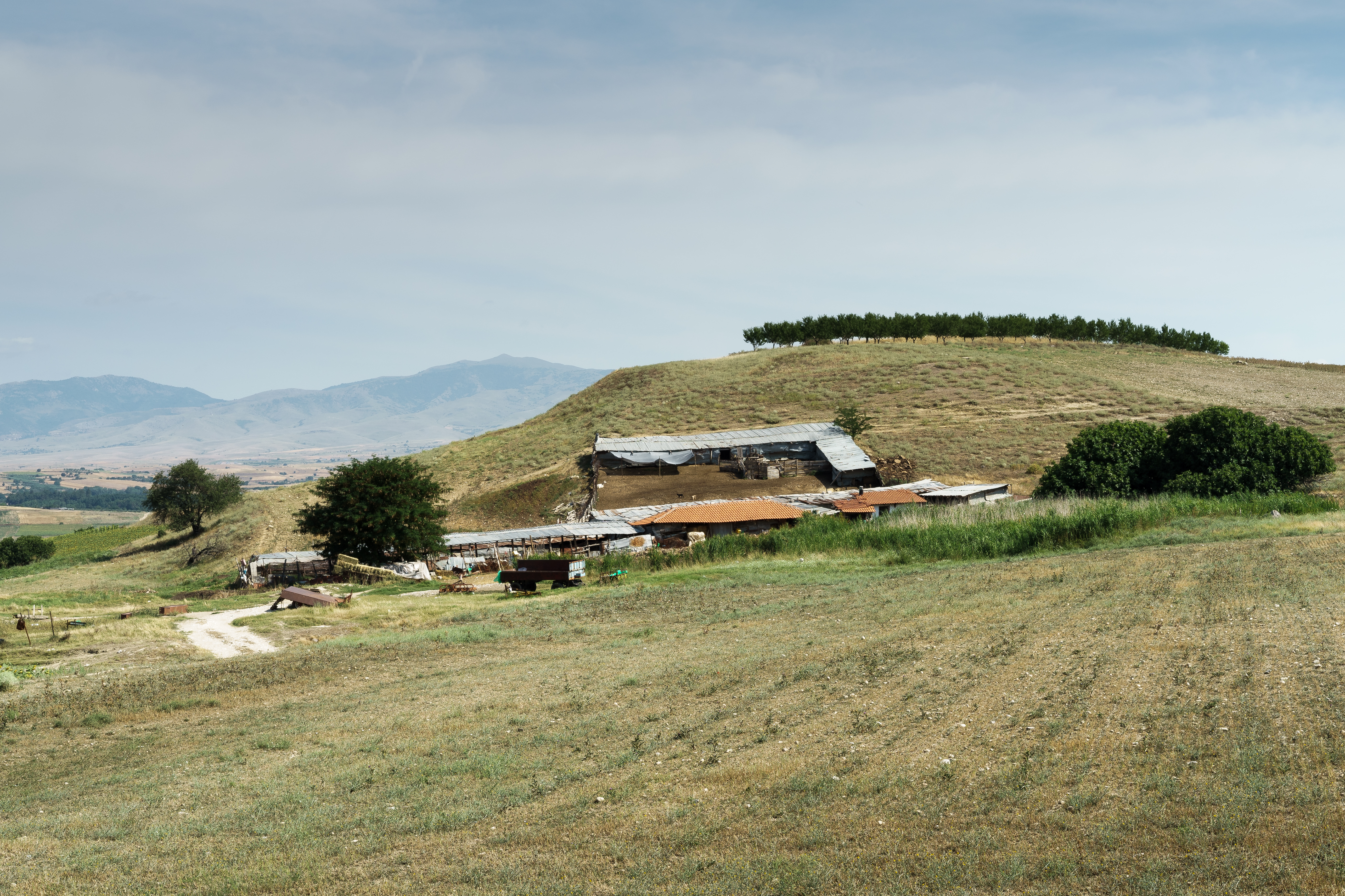 Pen for goats near Myrrini / Macedonia